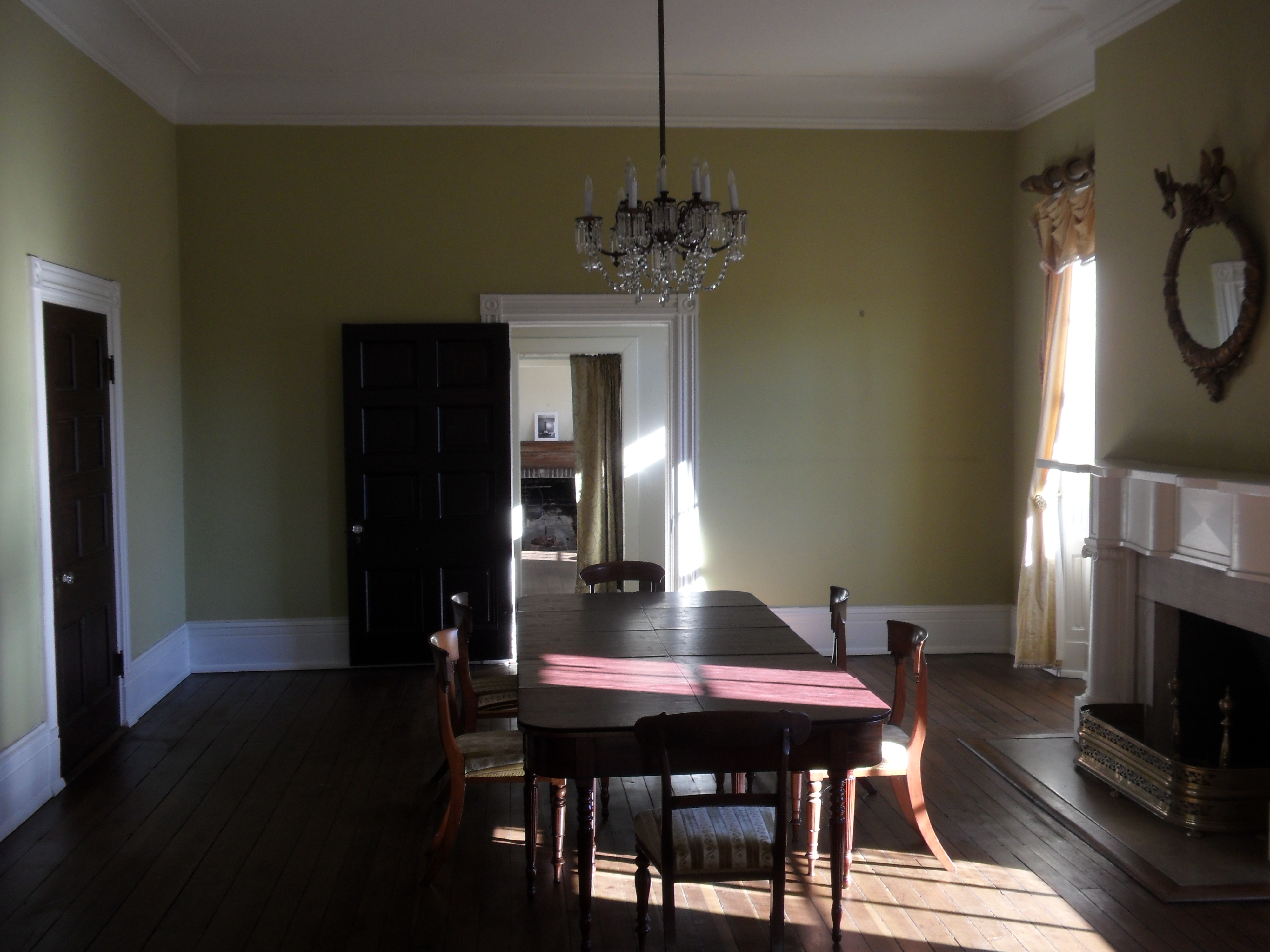 Dining room view to kitchen — at Tulip Grove, Hermitage, Tennessee. Built in 1836 for Andrew Jackson Donelson who was the nephew of Andrew Jackson.